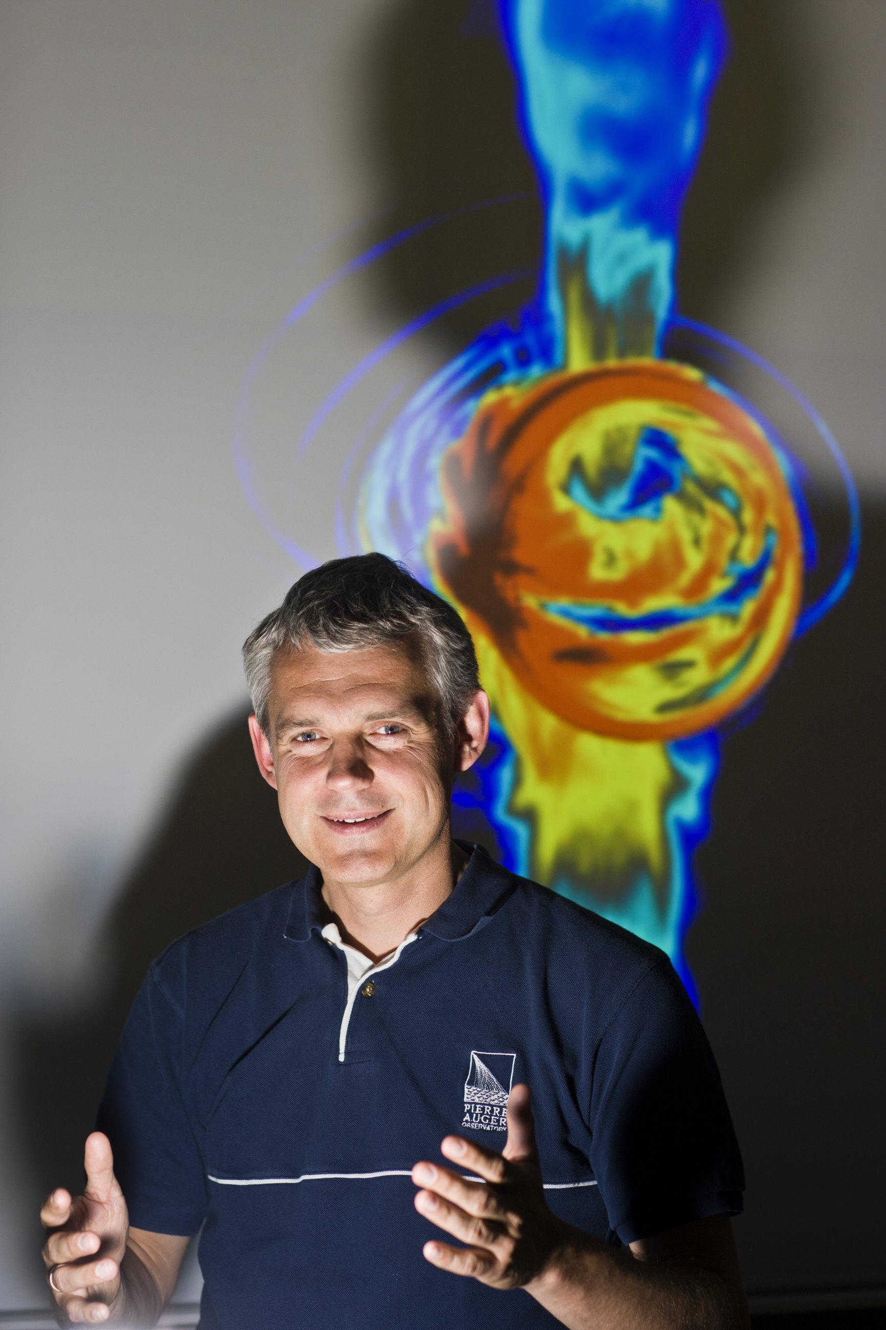 German astronomer Heino Falcke (2011)